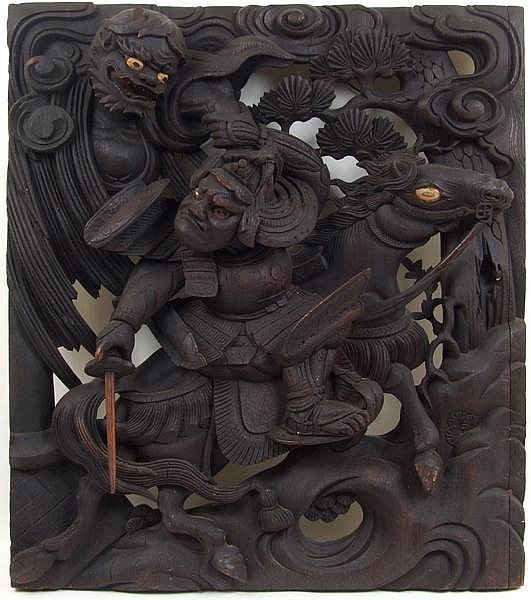 Mid-to-late Edo Period (circa 1820s) large wood carving of the fabled duel between the samurai Watanabe no Tsuna and the demon Ibaraki at the Rashomon Gate in Kyoto.